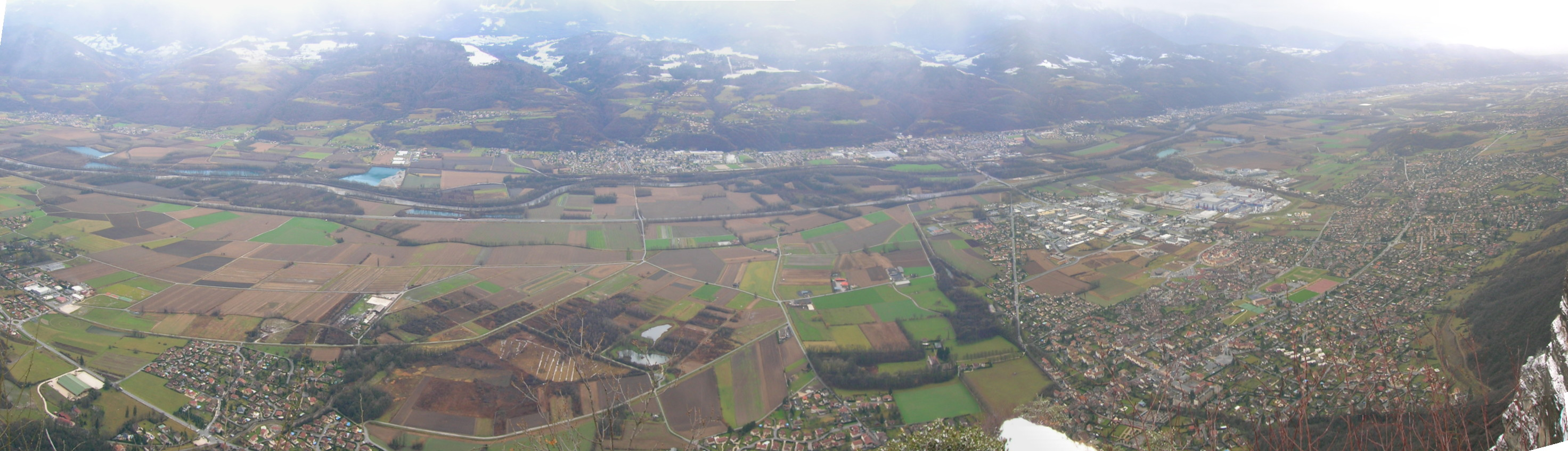 Panorama of the Isère valley from the Chartreuse.